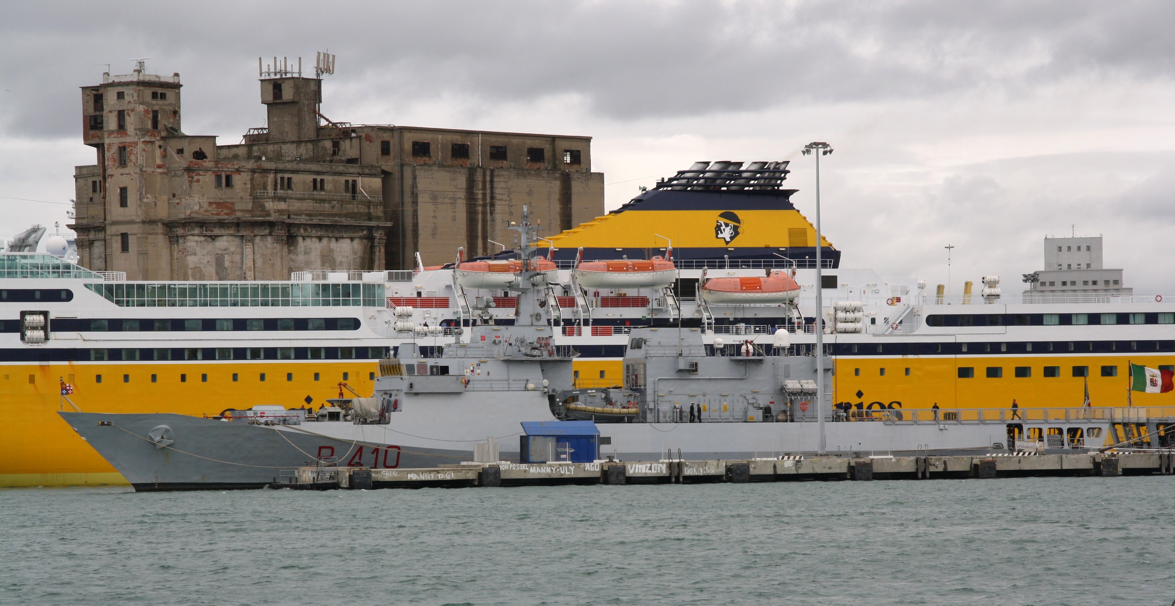 Italy, Marina Militare, Orione (P 410) Sirio-class patrol vessel built by Cantiere navale di Riva Trigoso has been launched on July 27, 2002. The main role is anti-pollution operations, search and rescue and defense of offshore platforms. Here is berthed in the Port of Livorno to the dock “Andana degli Anelli” of “Porto Mediceo”.